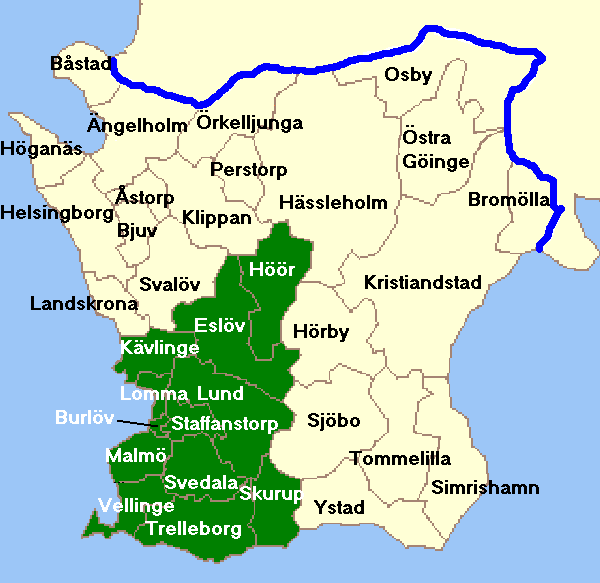 A map showing the region of Stormalmö, in Sweden.